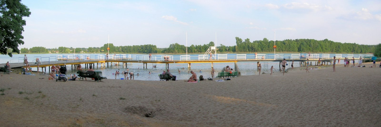 Borówno Lake